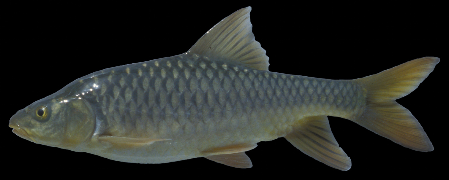 Adult Carasobarbus exulatus, live specimen from Wādī al Khūn.